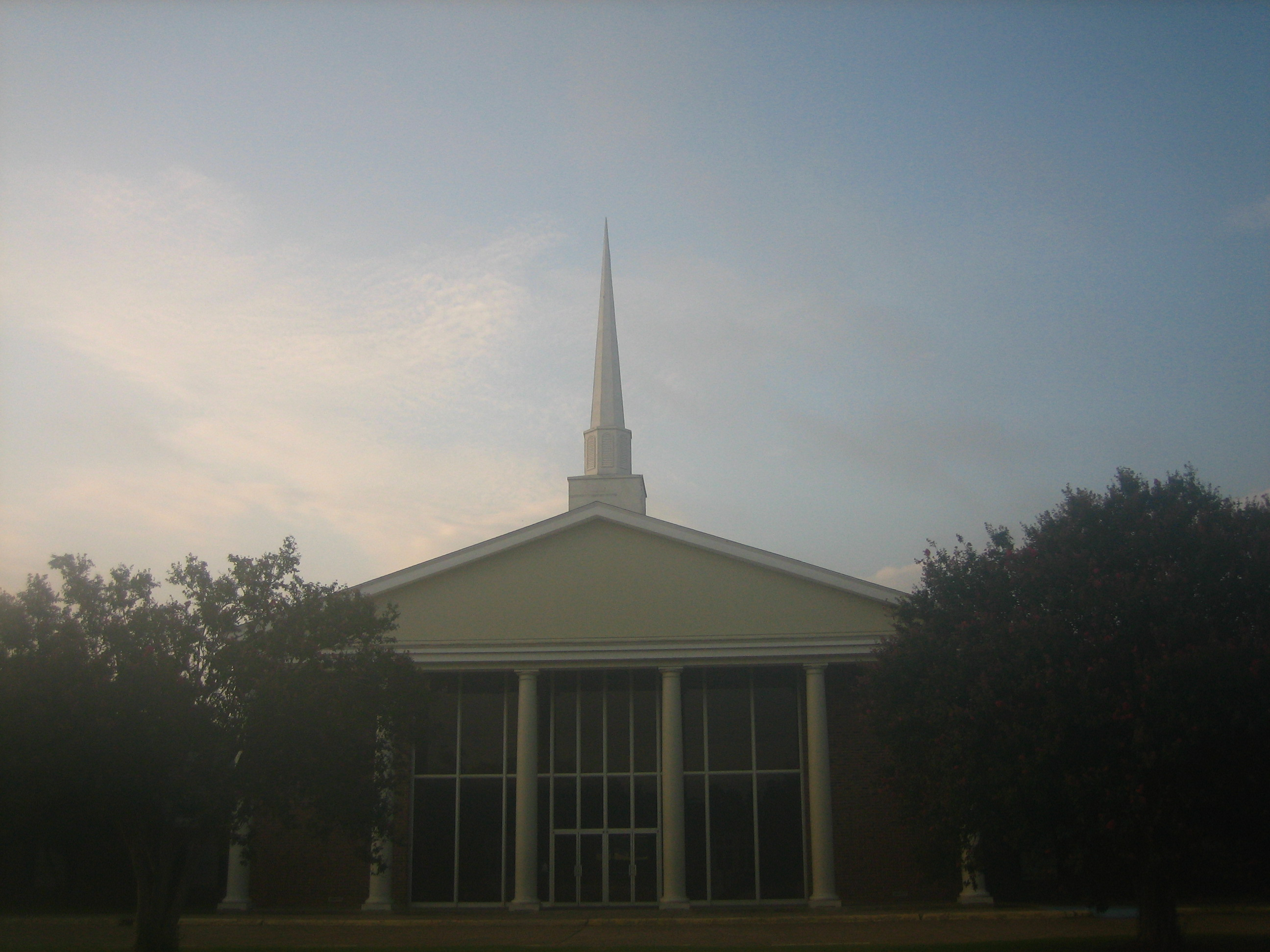 Church, Alexandria, Louisiana.